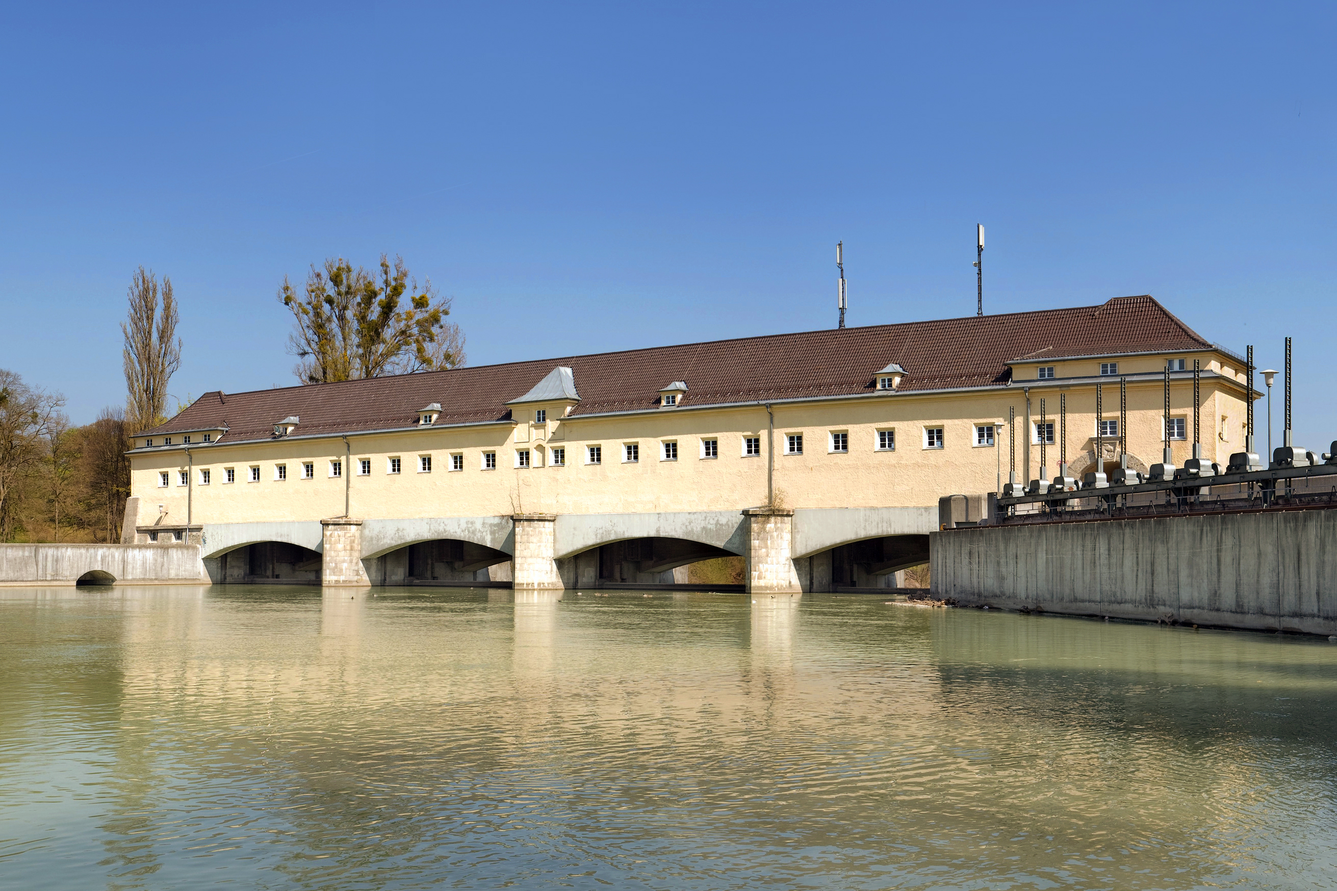 Upstream of Oberföhring weir in the Isar river, Oberföhring, Munich, Germany. The new powerplant is downstream, behind the weir.